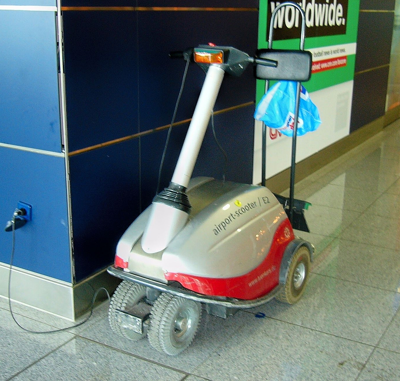 Airport scooter at Hanover/Langenhagen International Airport, Germany.